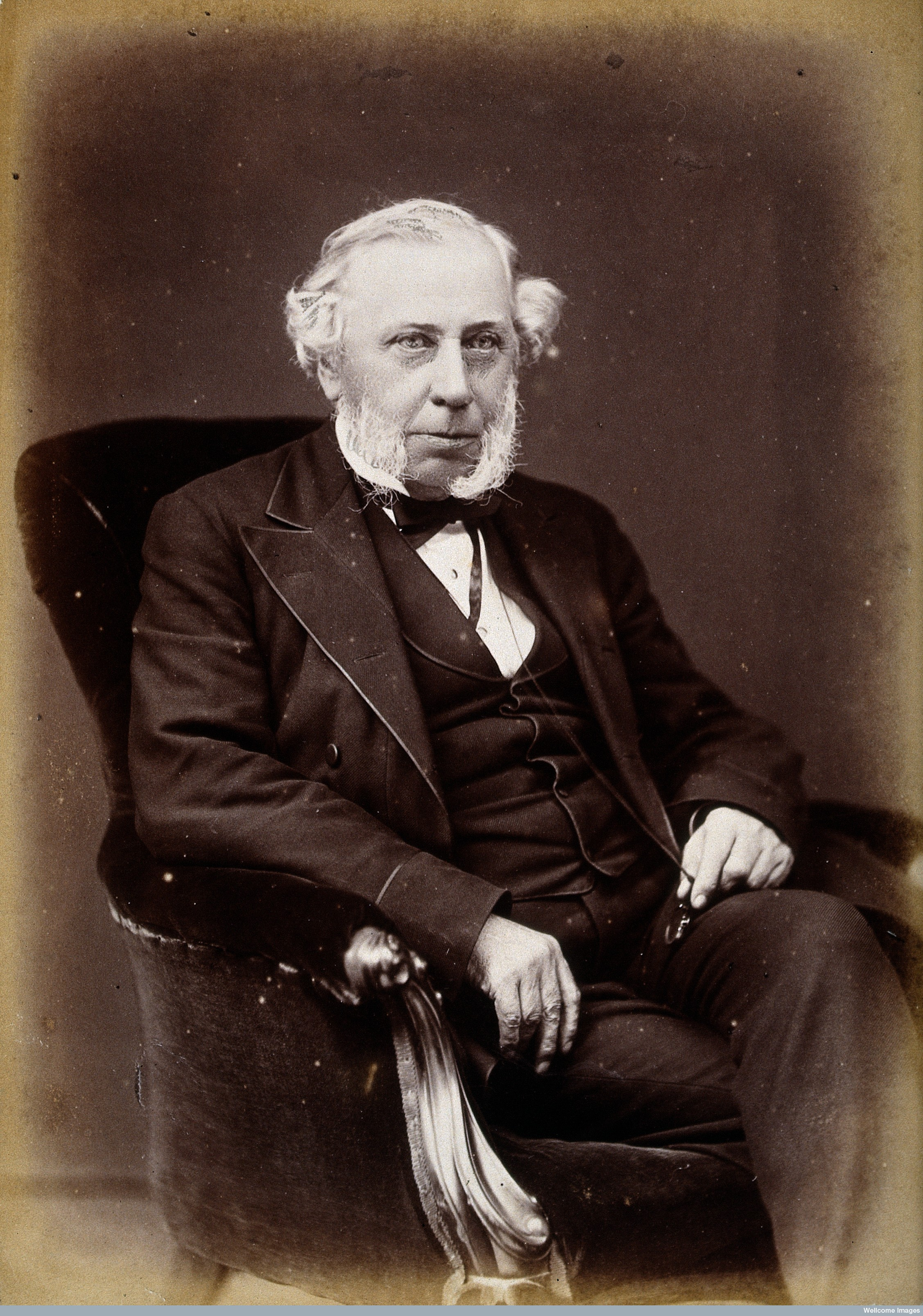 V0027324 Charles West. Photograph by G. Jerrard. Credit: Wellcome Library, London. Wellcome Images Charles West. Photograph by G. Jerrard. Published: - Copyrighted work available under Creative Commons Attribution only licence CC BY 4.0